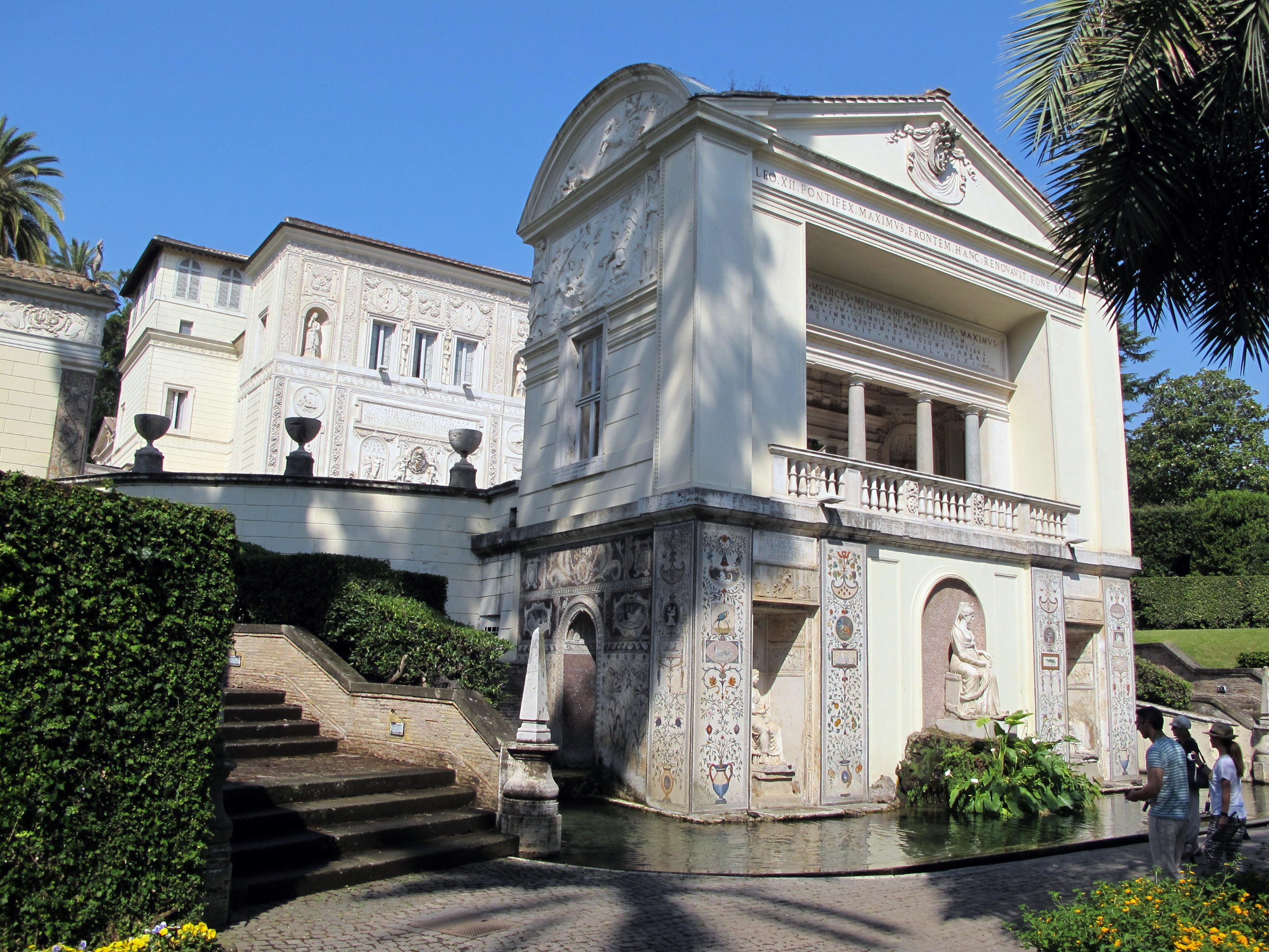 Pontifical Academy of Sciences